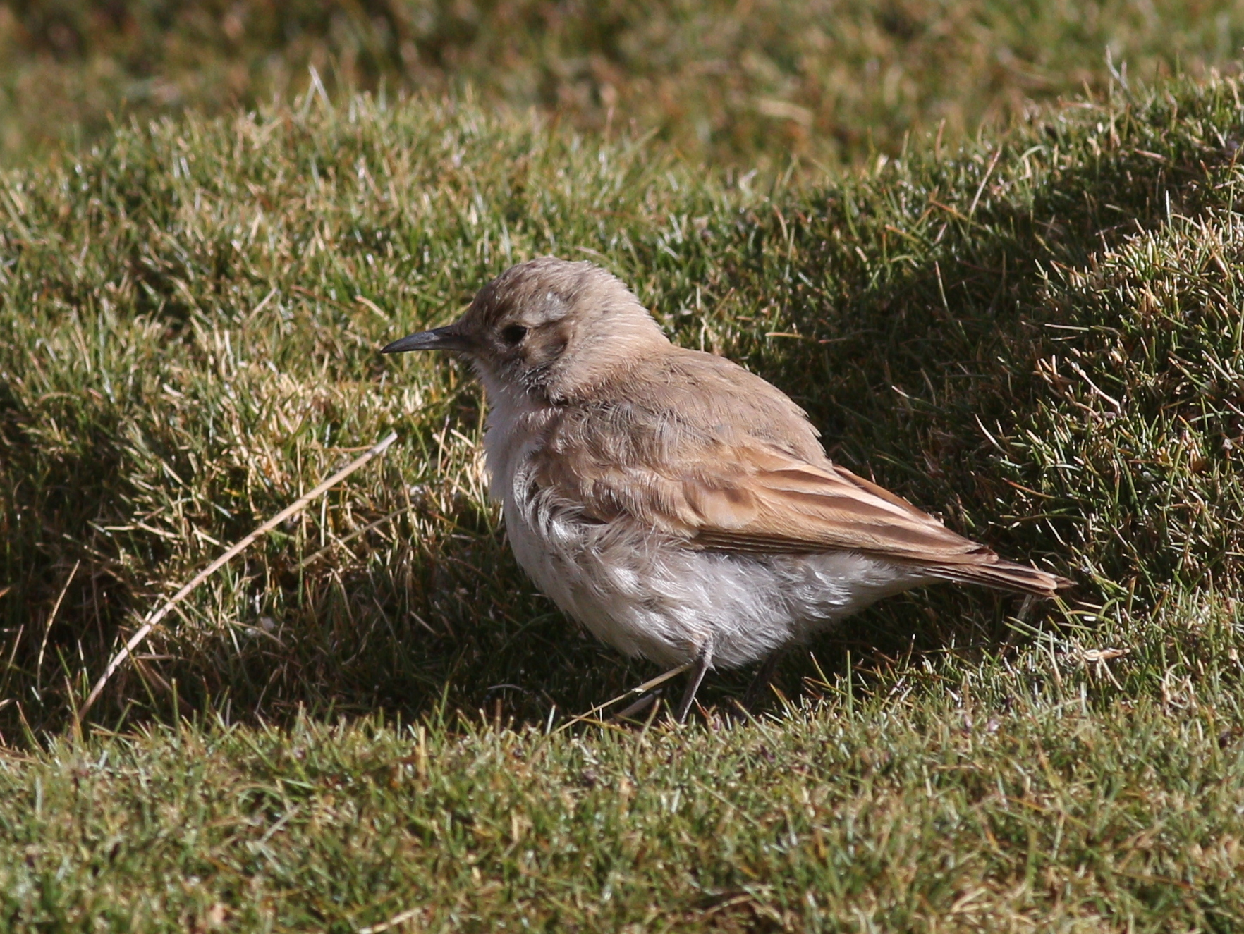 Puna Miner, south of Nevado Quewar, Argentina